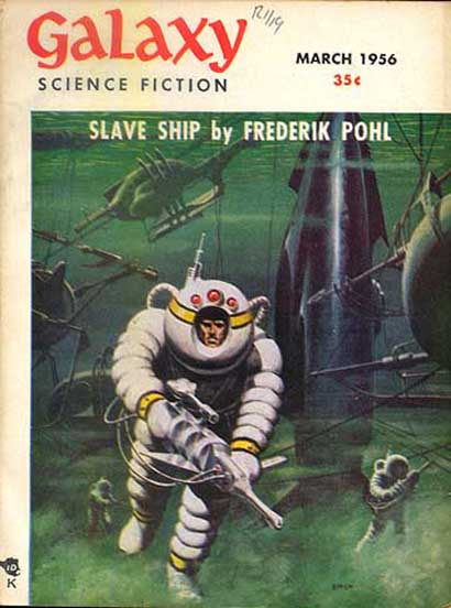 Cover of Galaxy, March 1956